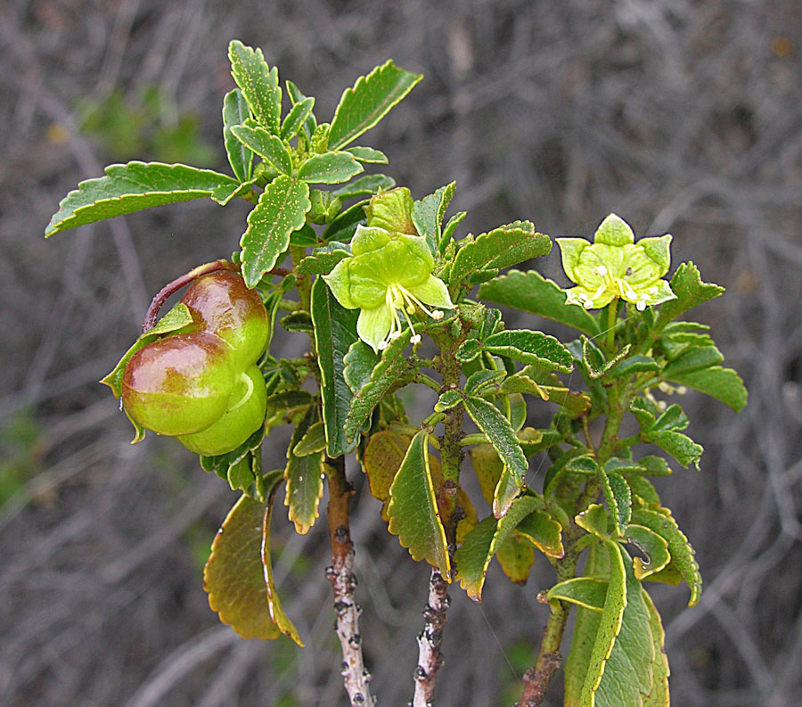 A shrub of central Chile known as Atutemo and as Arbol de Cuentos. In context at